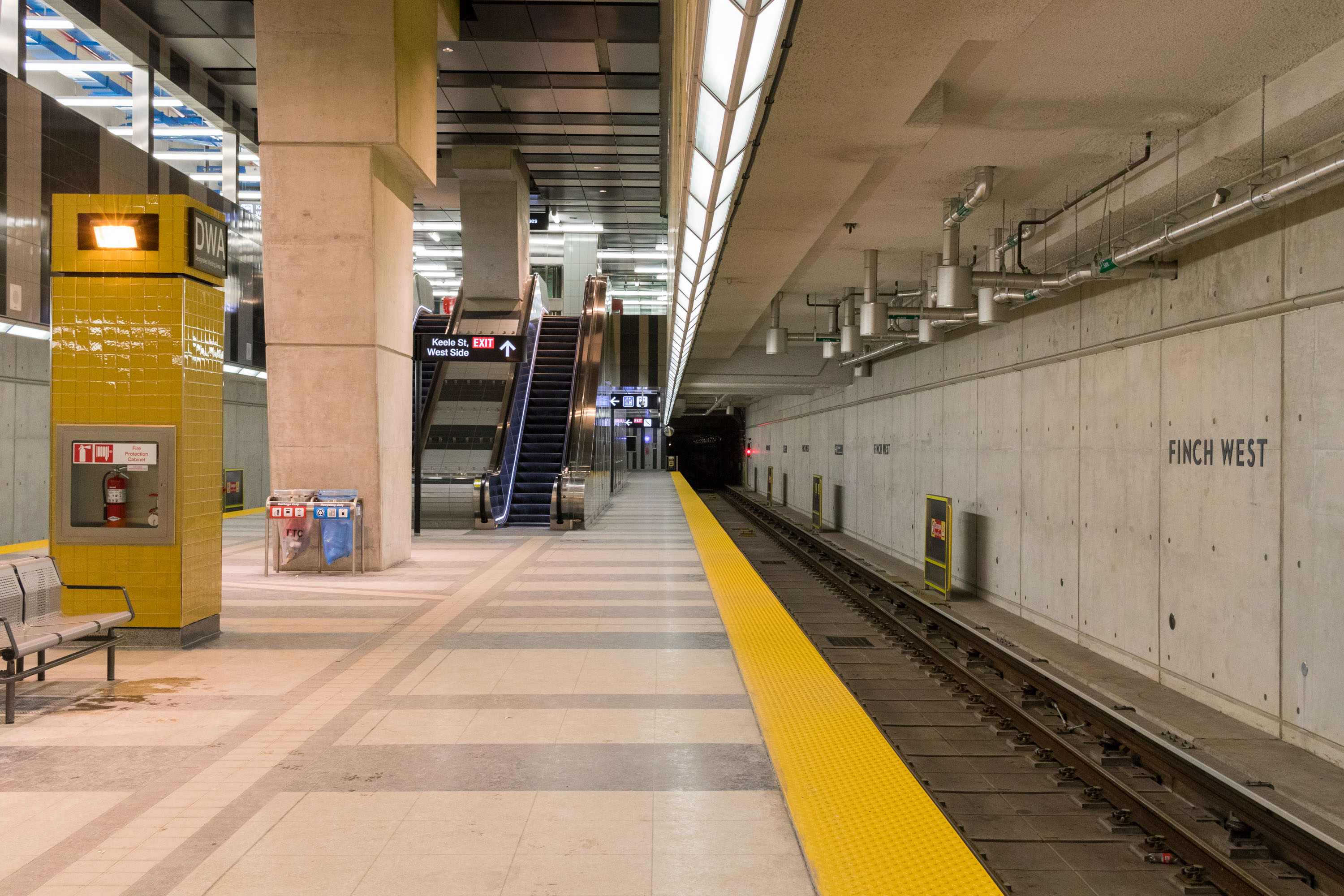 Finch West Platform